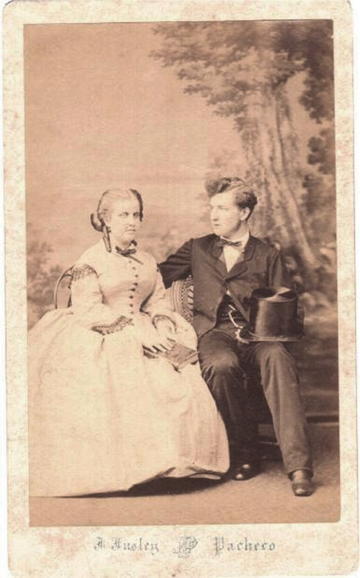 The Princess Leopoldina of Brazil and her husband the Prince Ludwig August of Saxe-Coburg-Koháry.